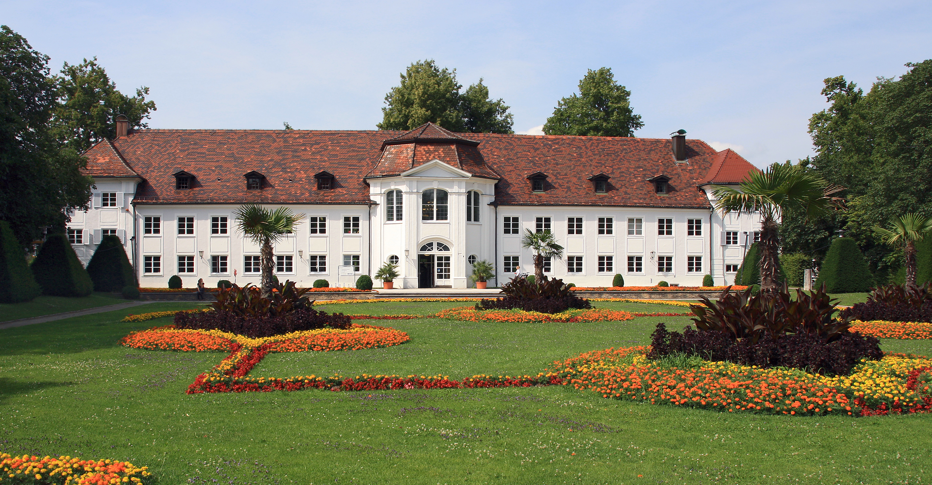 View through the courtyard garden to the south facade of the Orangery of Kempten (Allgäu) in Bavaria, Germany